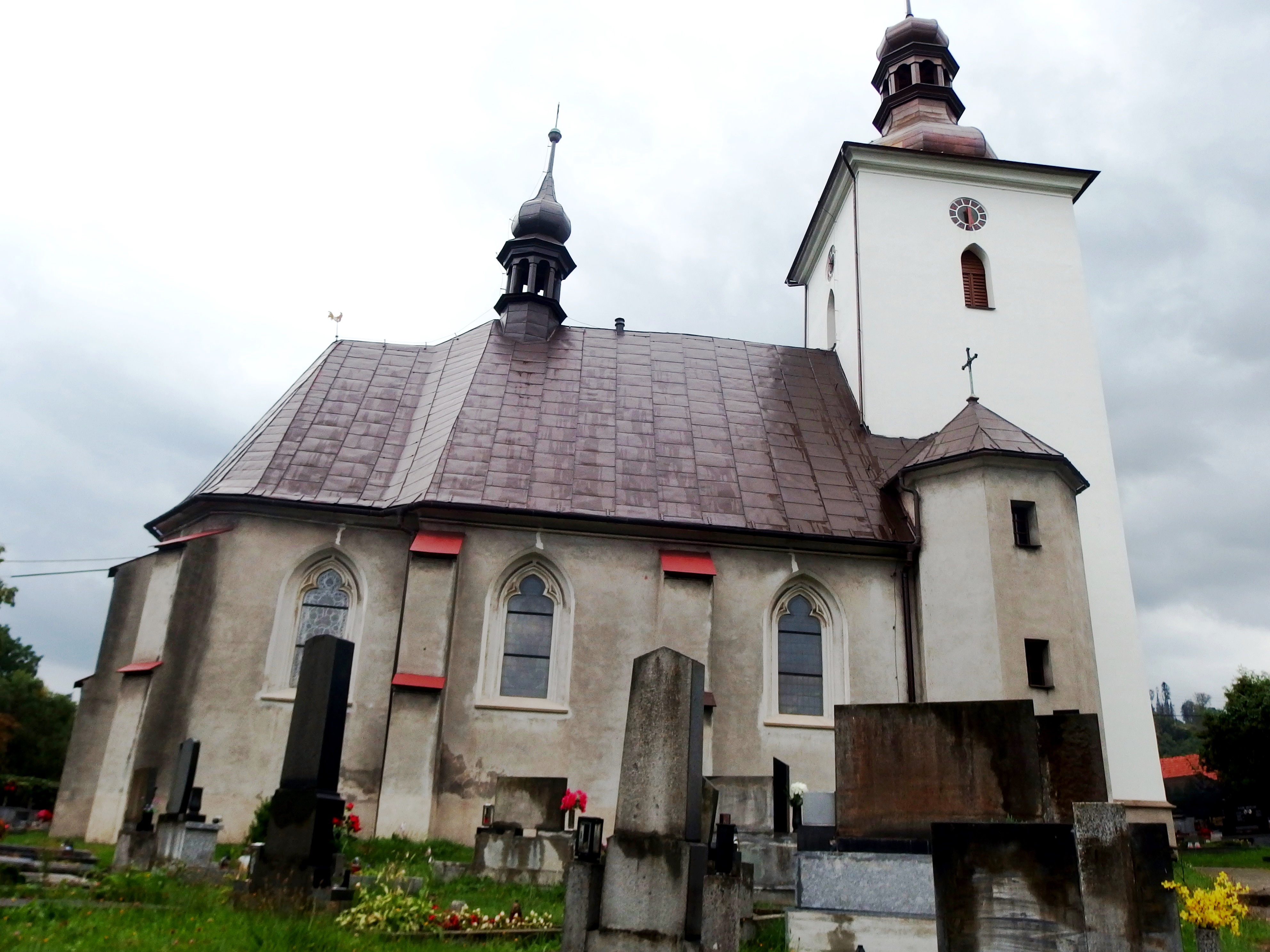 Kopřivnice, Nový Jičín District, Czech Republic, part Vlčovice.